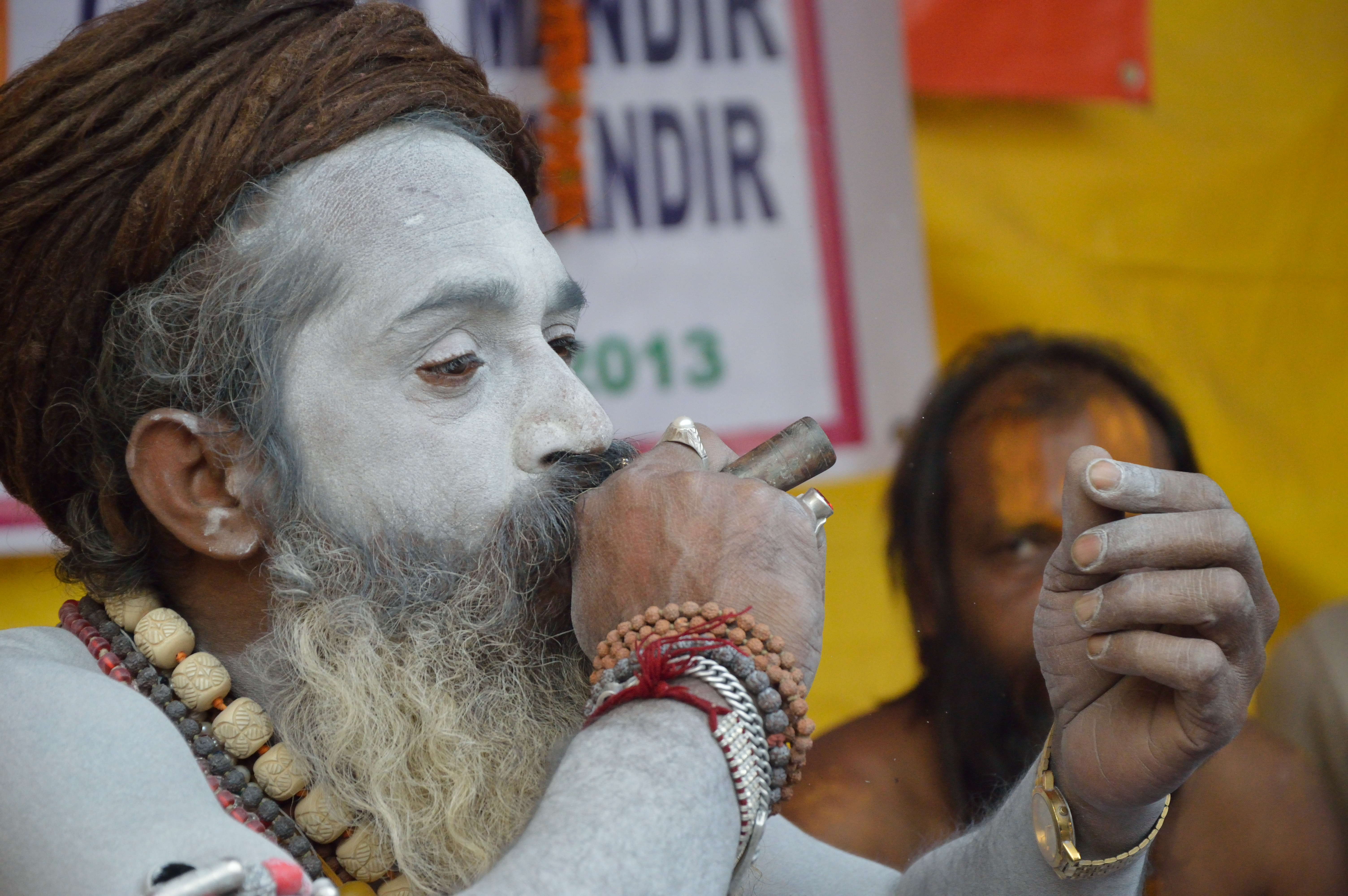 Photographed in Kolkata.